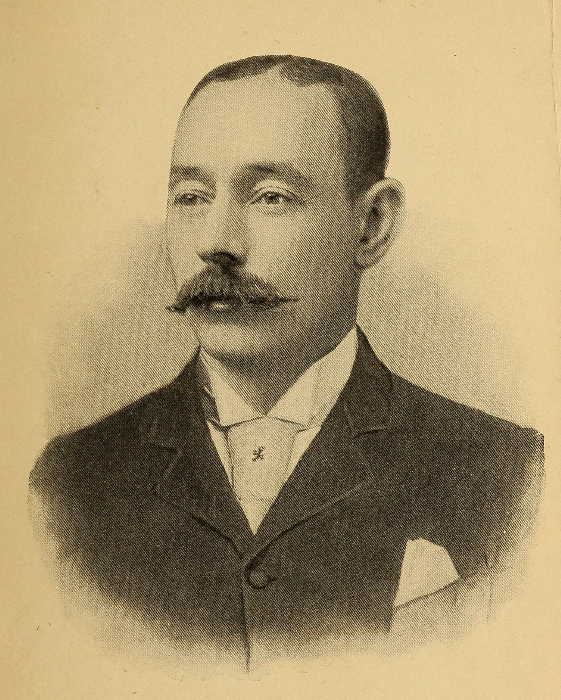 Richard K. Fox, sports promoter and publisher of the Police Gazette